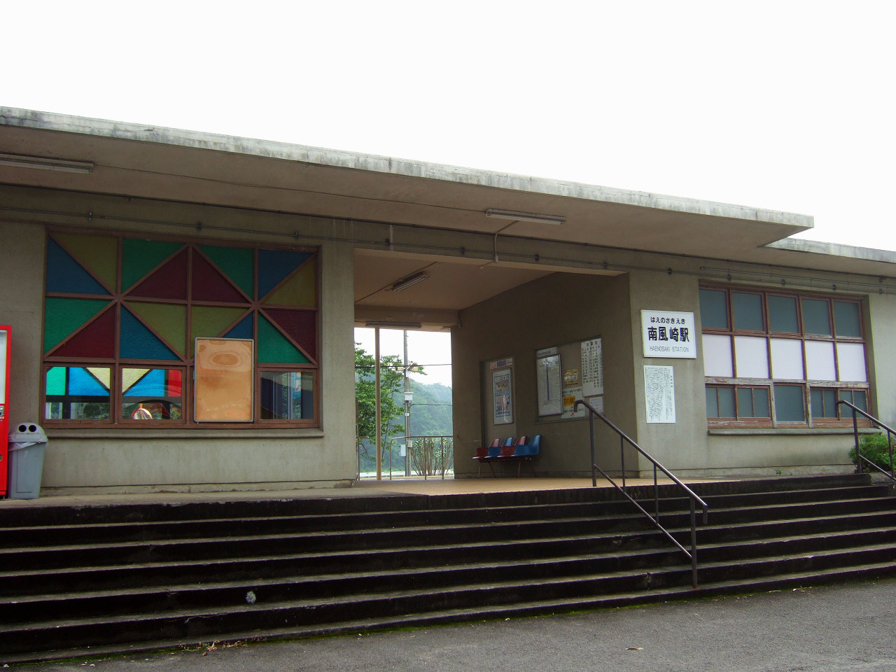 JR Kyushu Omura Line Haenosaki Station